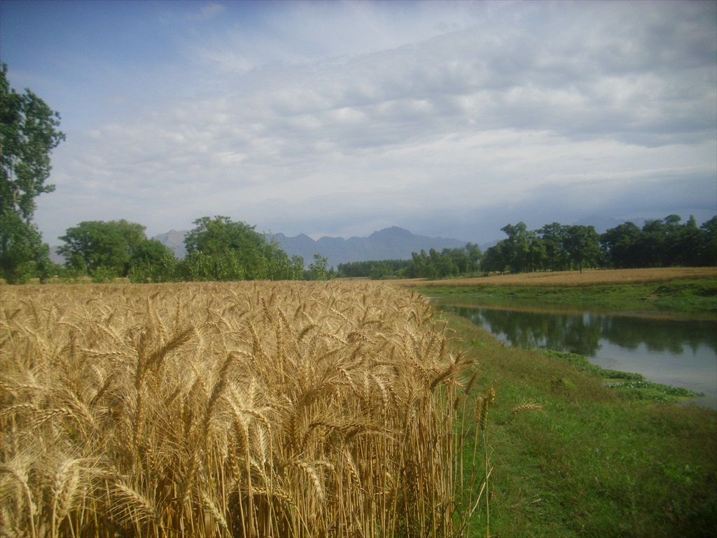 Balar River Saidan Garhi Kpk Pakistan